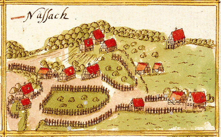 View of Nassach, Spiegelberg, from the forest register books created by Andreas Kieser